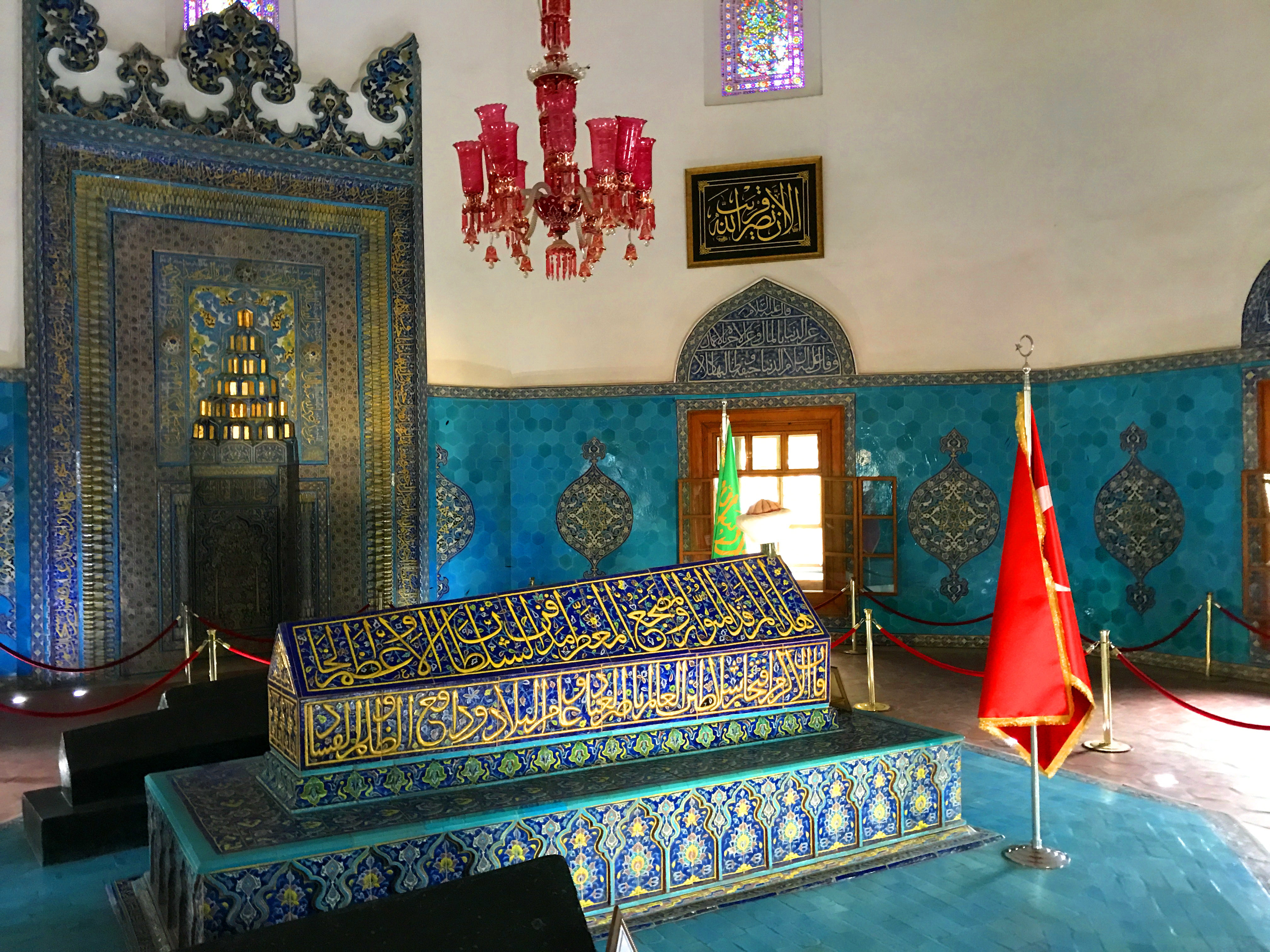 The Green Tomb (Yeşil Türbe) is a mausoleum of the fifth Ottoman Sultan, Mehmed I, in Bursa, Turkey. It was built by Mehmed's son and successor Murad II following the death of the sovereign in 1421. The architect, Hacı Ivaz Pasha designed the tomb and the Yeşil Mosque opposite to it